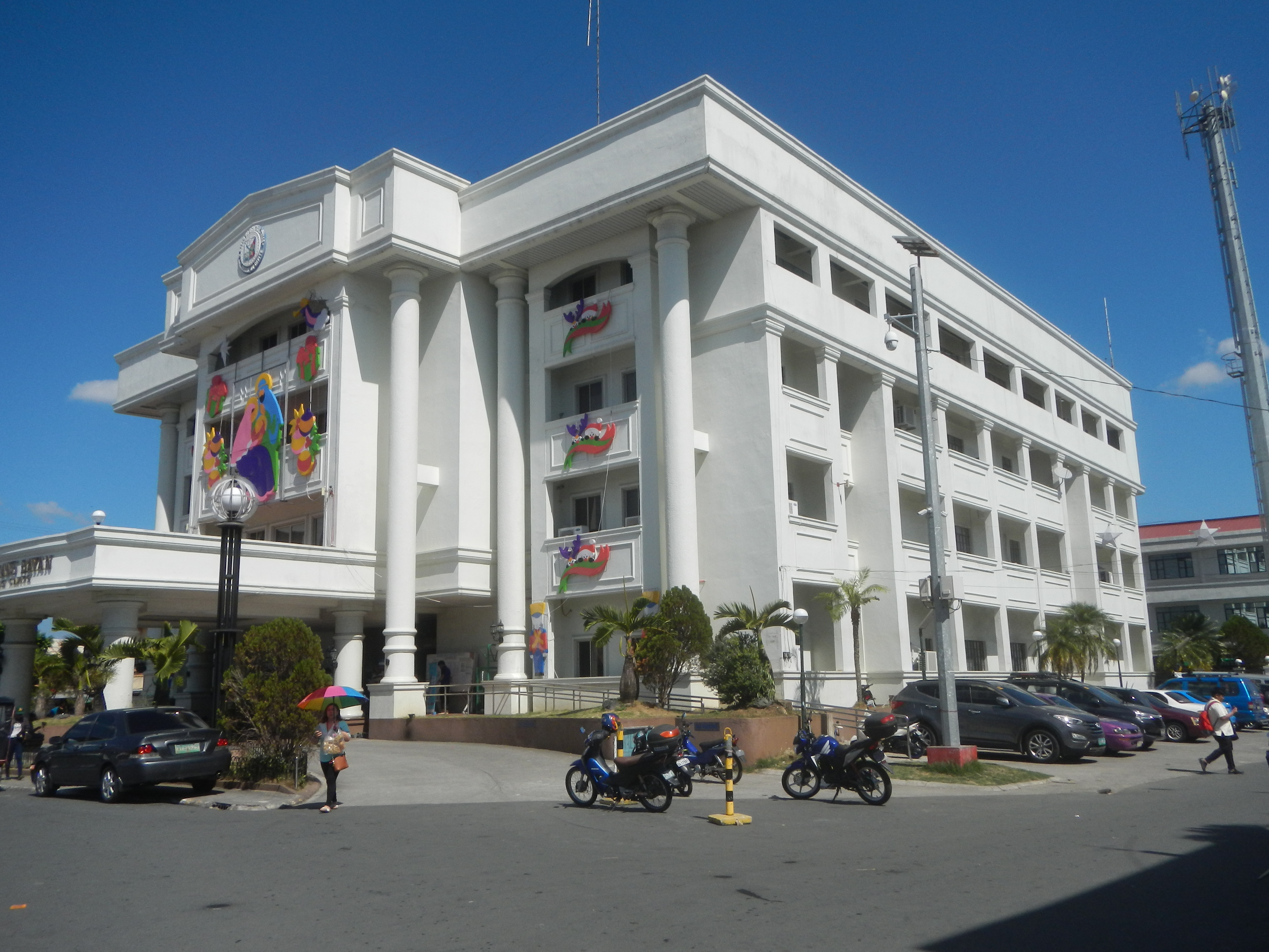 General Artemio Ricarte Memorial School (General Trias, Cavite) General Trias (R. A. 2889) monument, Cavite General Trias City Hall - Plaza Rizal, Cavite beside Pinagtipunan, Prinza, Governor Ferrer & 1896th (Poblacion), General Trias, Cavite Barangay Pinagtipunan 14°22'20"N 120°52'44"E Prinza 14°22'46"N 120°52'45"E Governor Ferrer 14°23'30"N 120°52'49"E 1896th (Poblacion), General Trias, Cavite 14°23'2"N 120°52'44"E Arnaldo 14°20'22"N 120°54'28"E Vibora 14°23'4"N 120°53'0"E Bagumbayan, General Trias, Cavite 14°23'12"N 120°52'50"E Sampalucan 14.3865, 120.8791 General Trias, Cavite (Note: Judge Florentino Floro, the owner, to repeat, Donor Florentino Floro of all these photos hereby donate gratuitously, freely and unconditionally all these photos to and for Wikimedia Commons, exclusively, for public use of the public domain, and again without any condition whatsoever).